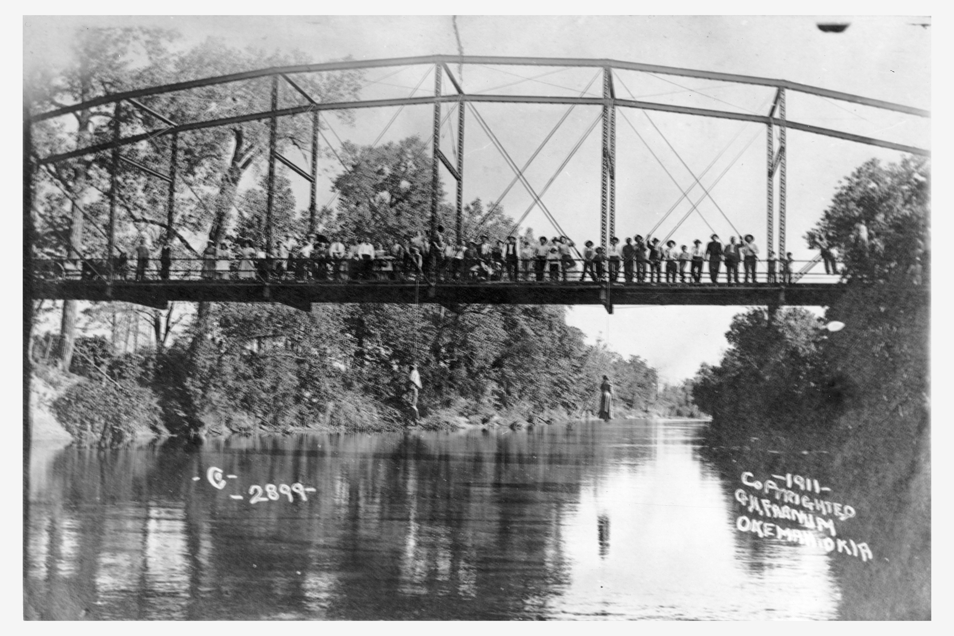 The lynching of Laura and Lawrence Nelson on 25 May 1911 in Okemah, Oklahoma.